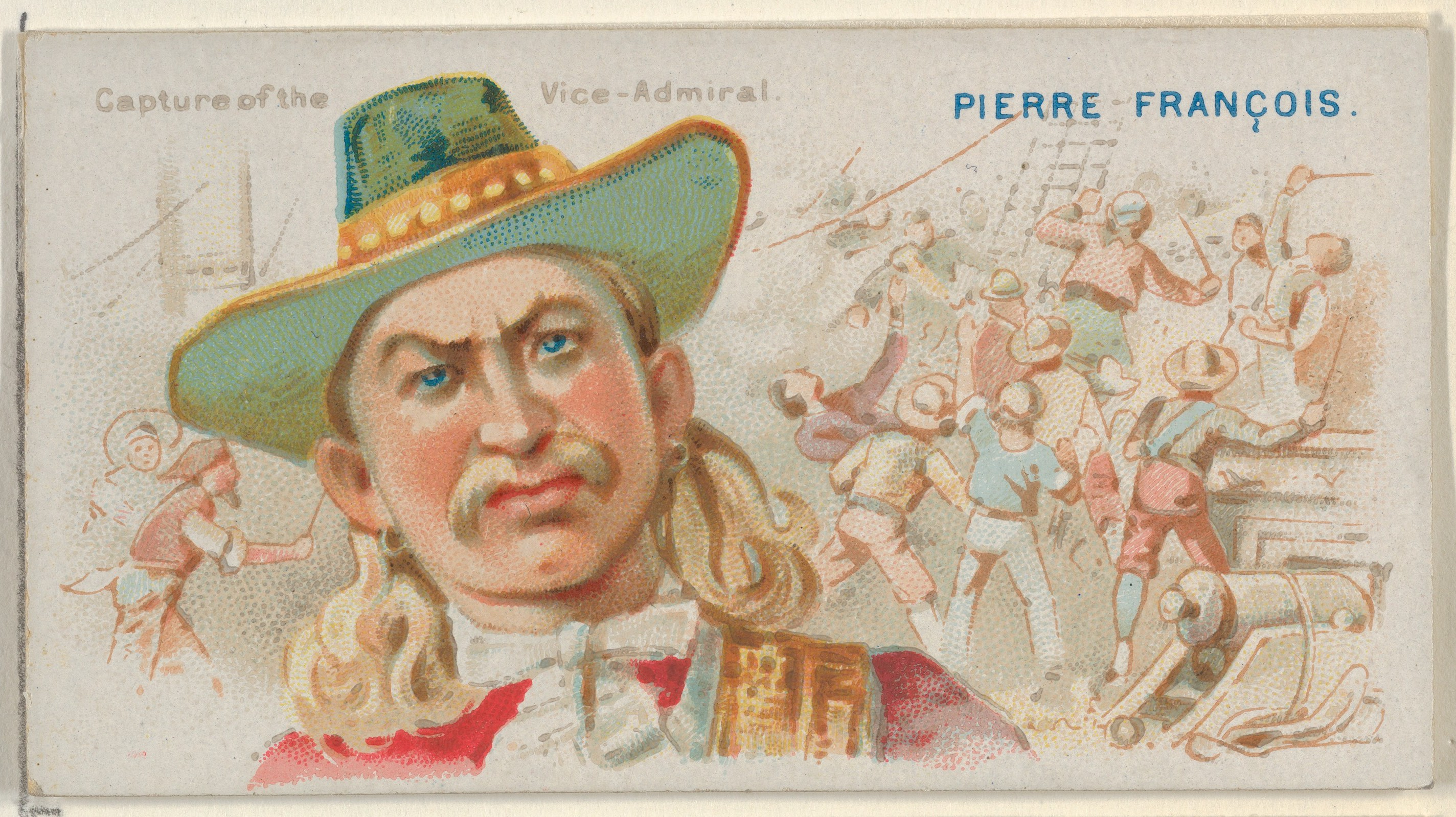 Print; Prints